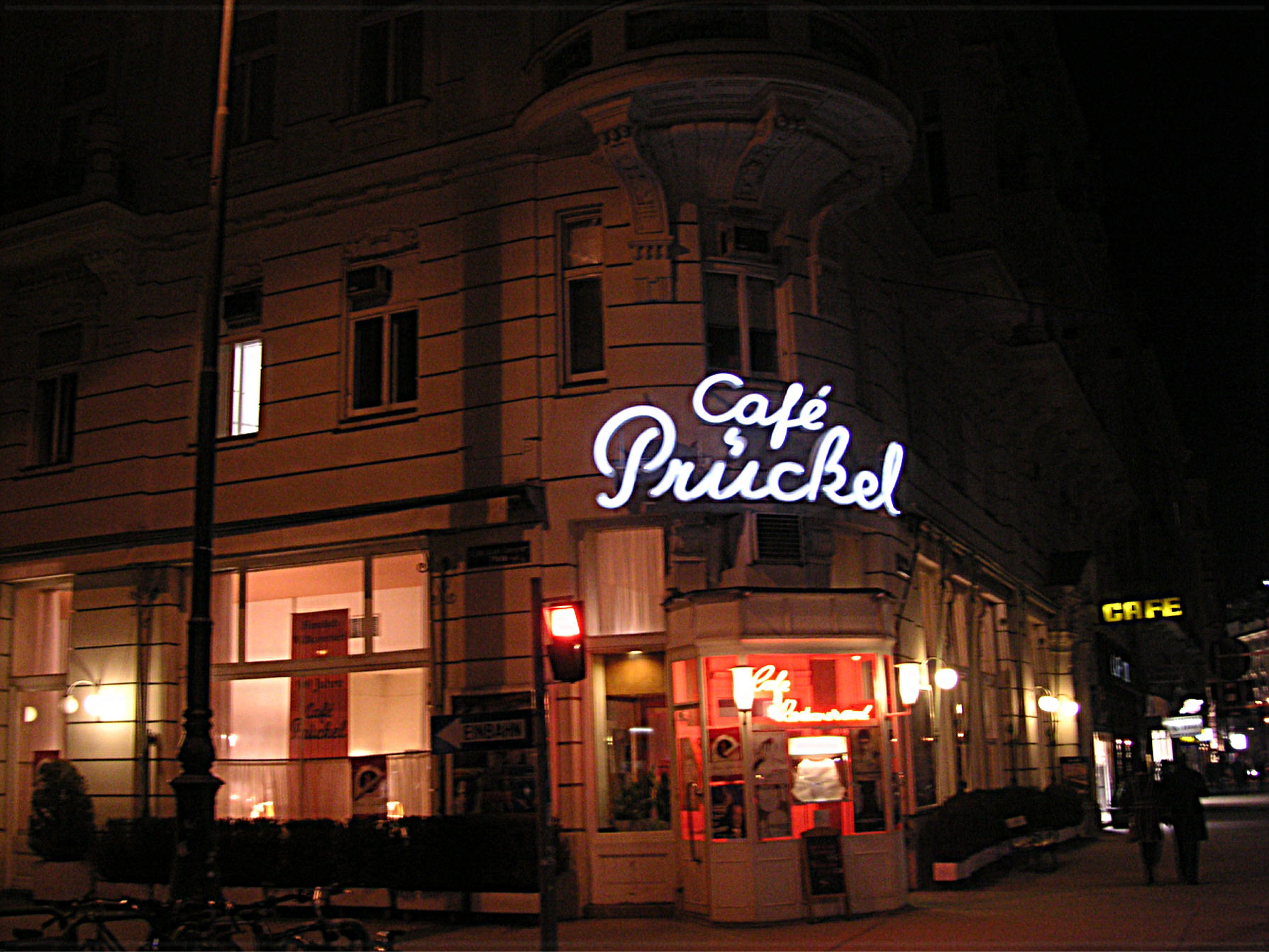 Photo by KF, January 2006.